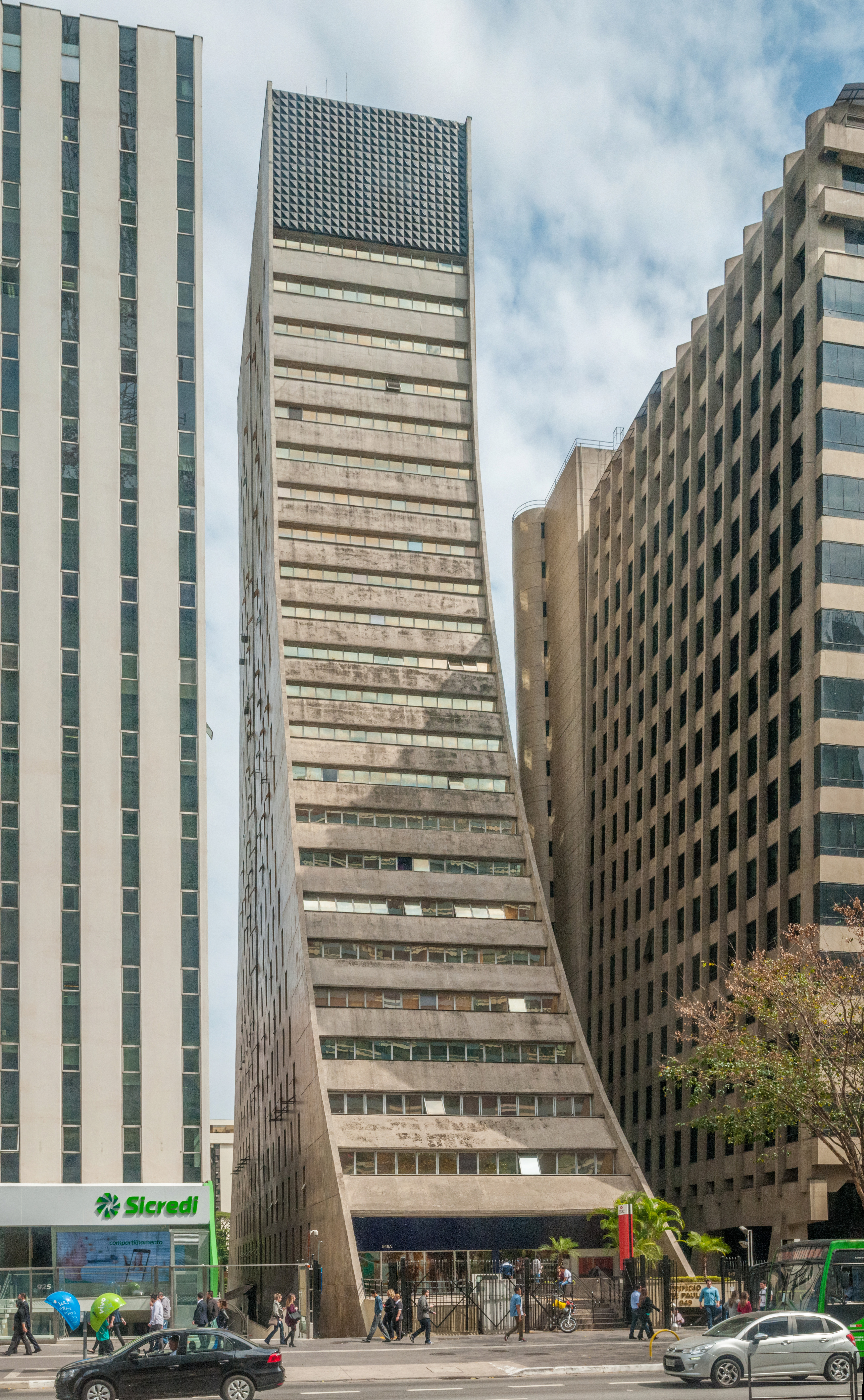 Building in Avenida Paulista, Brazil